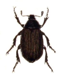 Anomala dubia, from Calwer's Käferbuch, Table 18, Picture 9. Taxonomy was updated to 2008, using mostly the sites Fauna Europaea and BioLib. Please contact Sarefo if the determination is wrong!